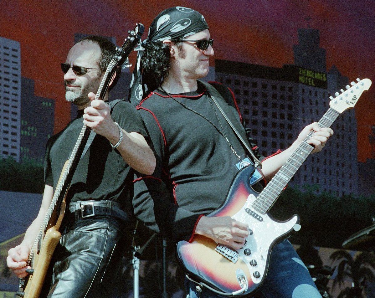 Mel Schacher and Bruce Kulick of Grand Funk Railroad performing at Gulfstream Park in Hallendale, FL.